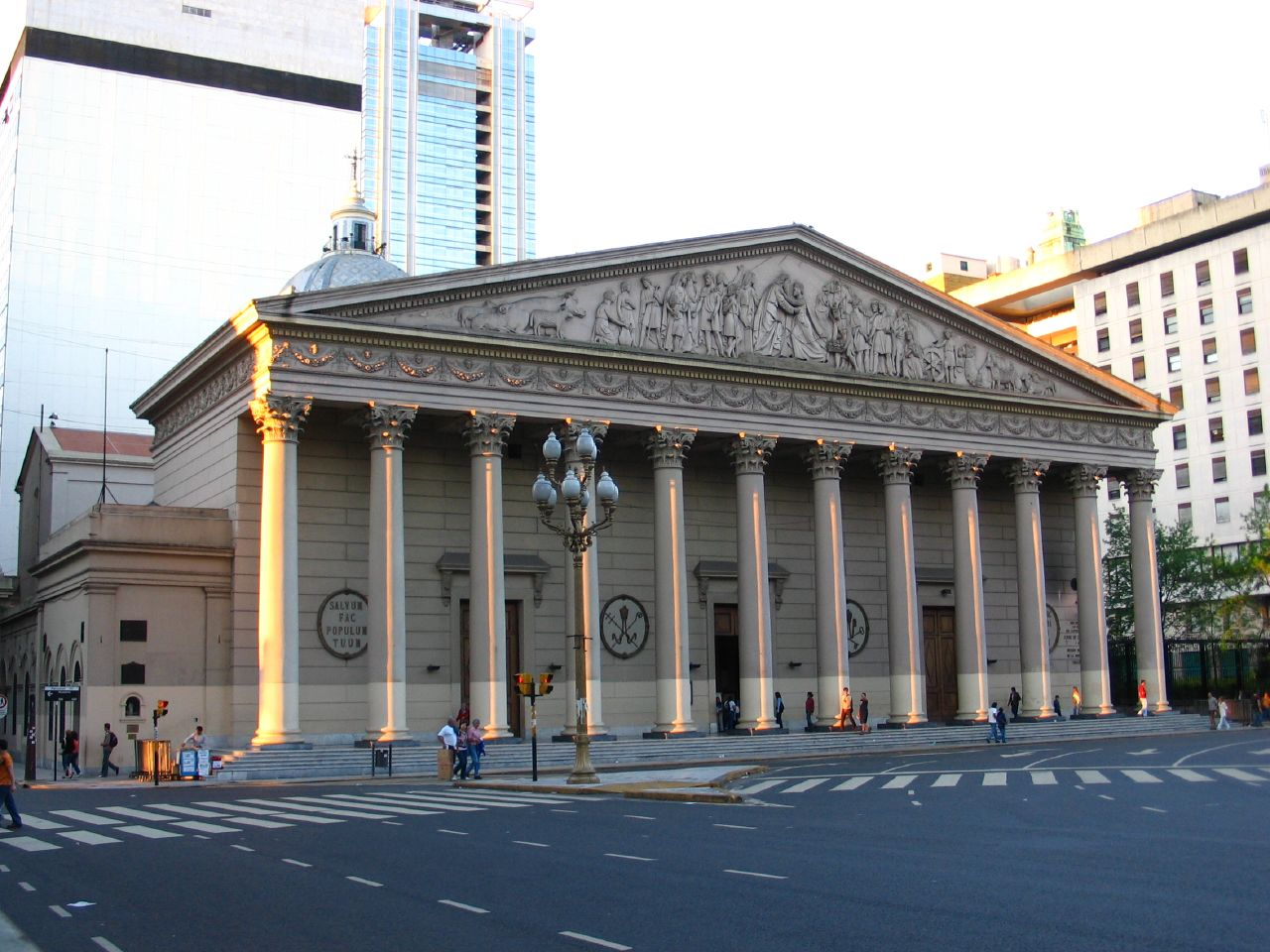 Catedral Metropolitana, Buenos Aires, Argentina.